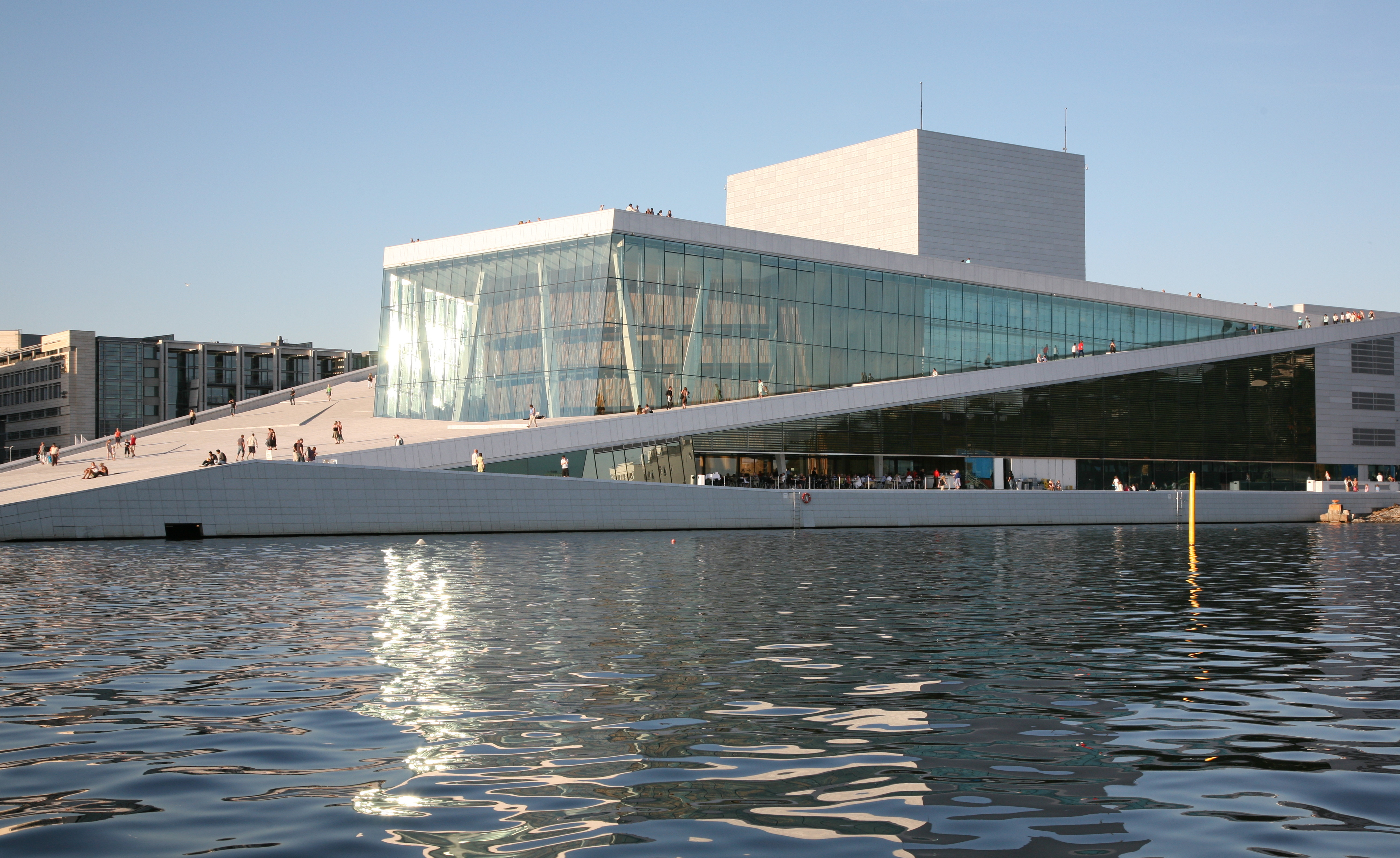 Oslo operahouse seen from the sea. People are using the house - walking on the roof as well as having a break from the ballet performance on the balconies inside.